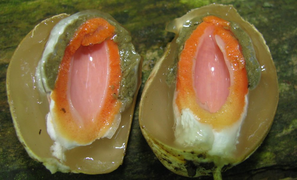 Mutinus caninus Location: Cincinnati, Ohio, USA